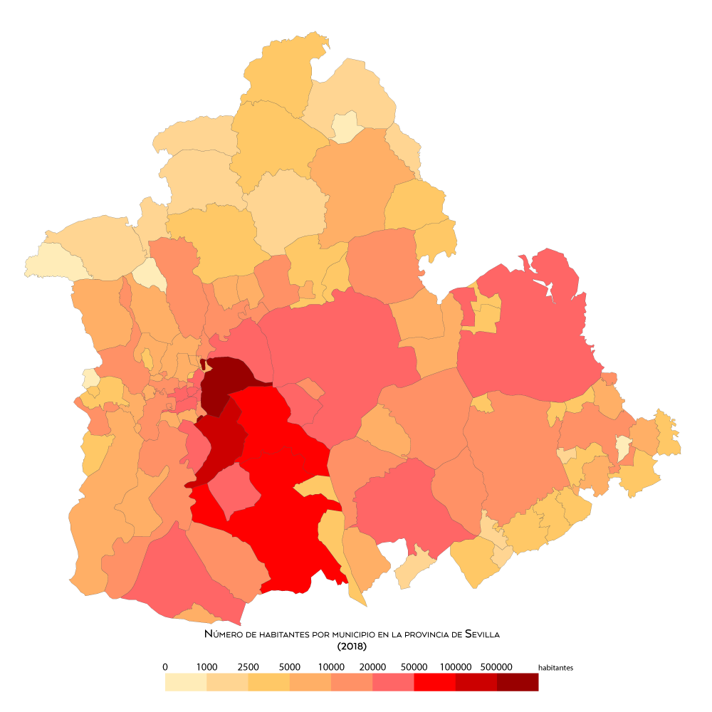 Population map in the province of Seville (Spain) 2018